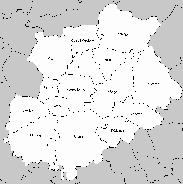 socken in Sjöbo